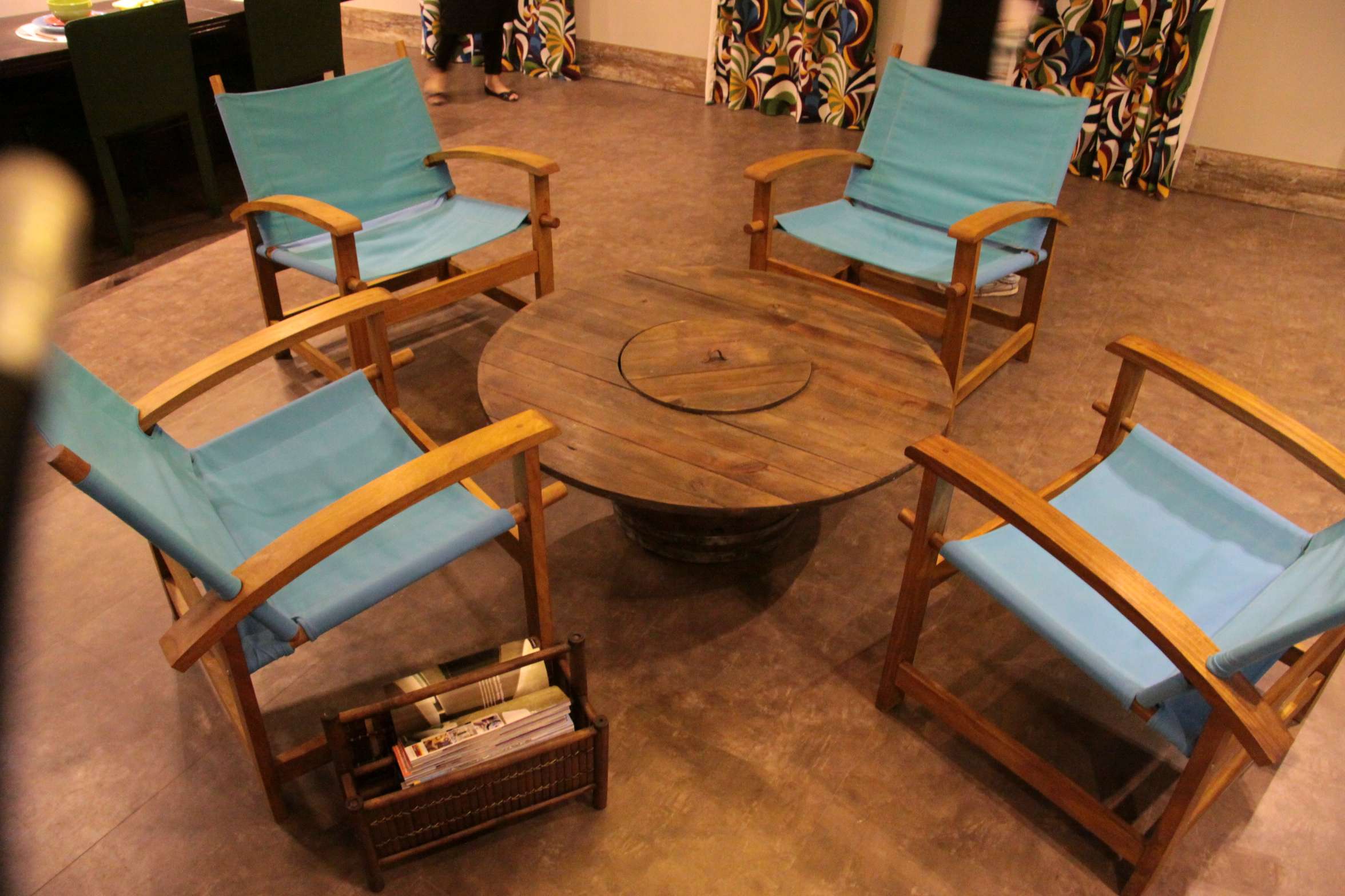 Electric wire reel used in MORAR MAIS POR MENOS - Rio de Janeiro - Brazil. MORAR MAIS is an decoratino fair. The project was made by Dama Design and it show the overall concern with ecodesign and reuse of materials.